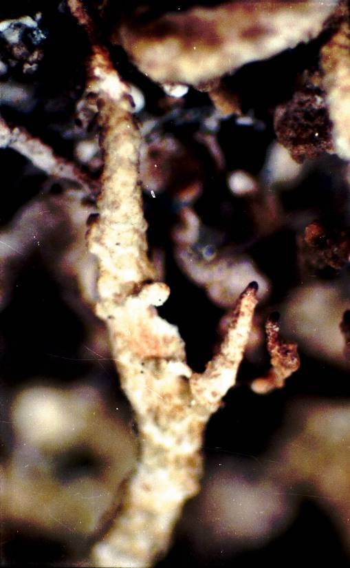 Cladonia decorticata (Flörke) Sprengel, 1827 (photograph of a herbarium specimen taken through a dissecting microscope (x40) showing the tip of a podetium) Growing on soil in Jack Pine woods near Crumley Creek off US-68, Cheboygan County, Michigan, USA; collected and identified by Richard E. Riefner (No. 81-455, 14 Jul 1981); specimen is now in the Lichen Herbarium of the New York Botanical Garden.